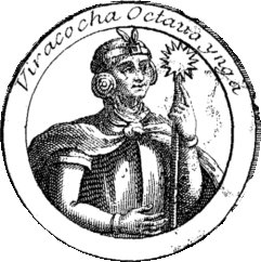 Portrait of Viracocha, detail of the frontispiece to the fifth Decade of Historia general de los hechos de los castellanos en las Islas y Tierra Firme del mar Océano que llaman Indias Occidentales by Antonio de Herrera